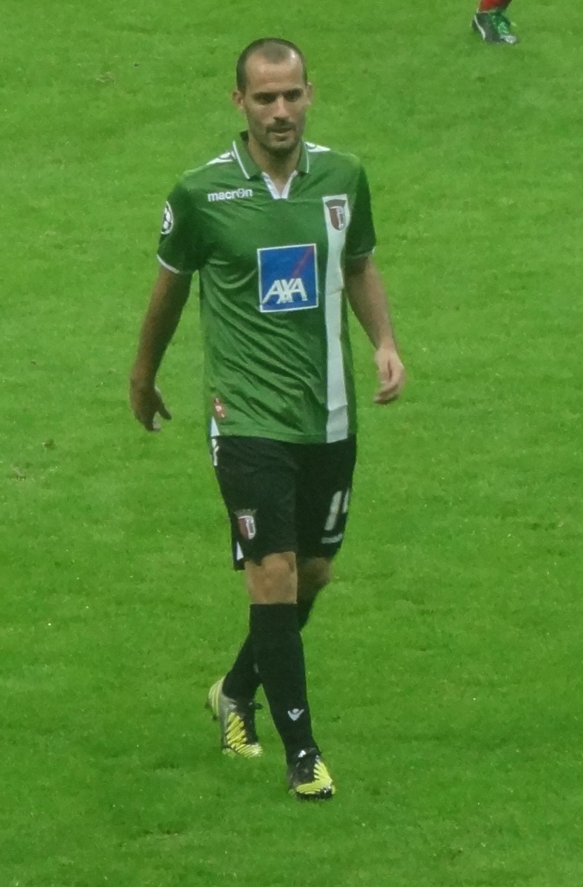 Ruben Michael